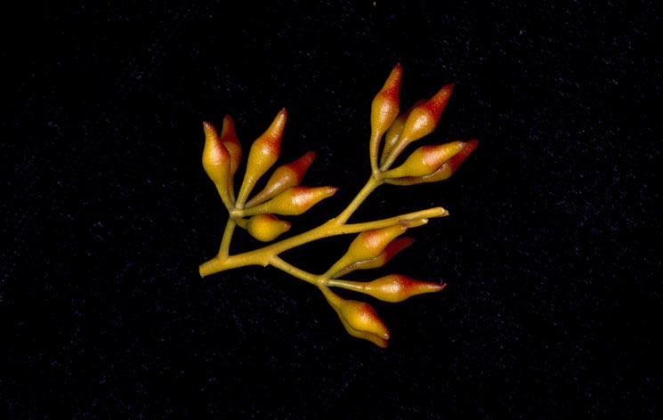 Flower buds of Eucalyptus formanii taken at south of the road junction at Youanmi on the Lake Barlee road